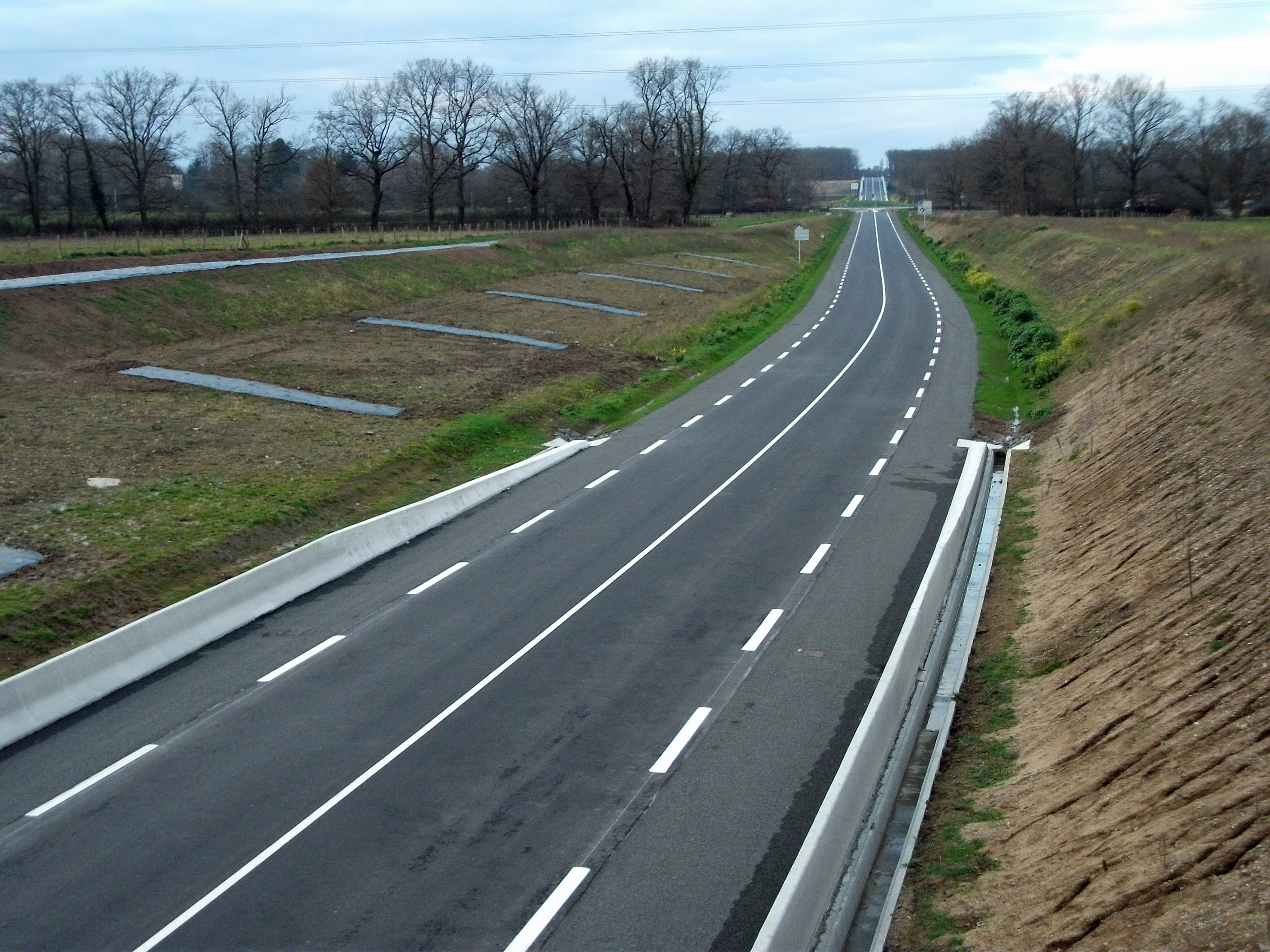 "Contournement sud-ouest" of Vichy, from the bridge of departmental road 131E, in the direction of A719 autoroute. This road was not opened. [9753]